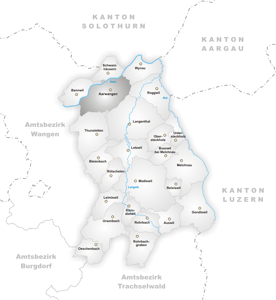 Municipality Aarwangen